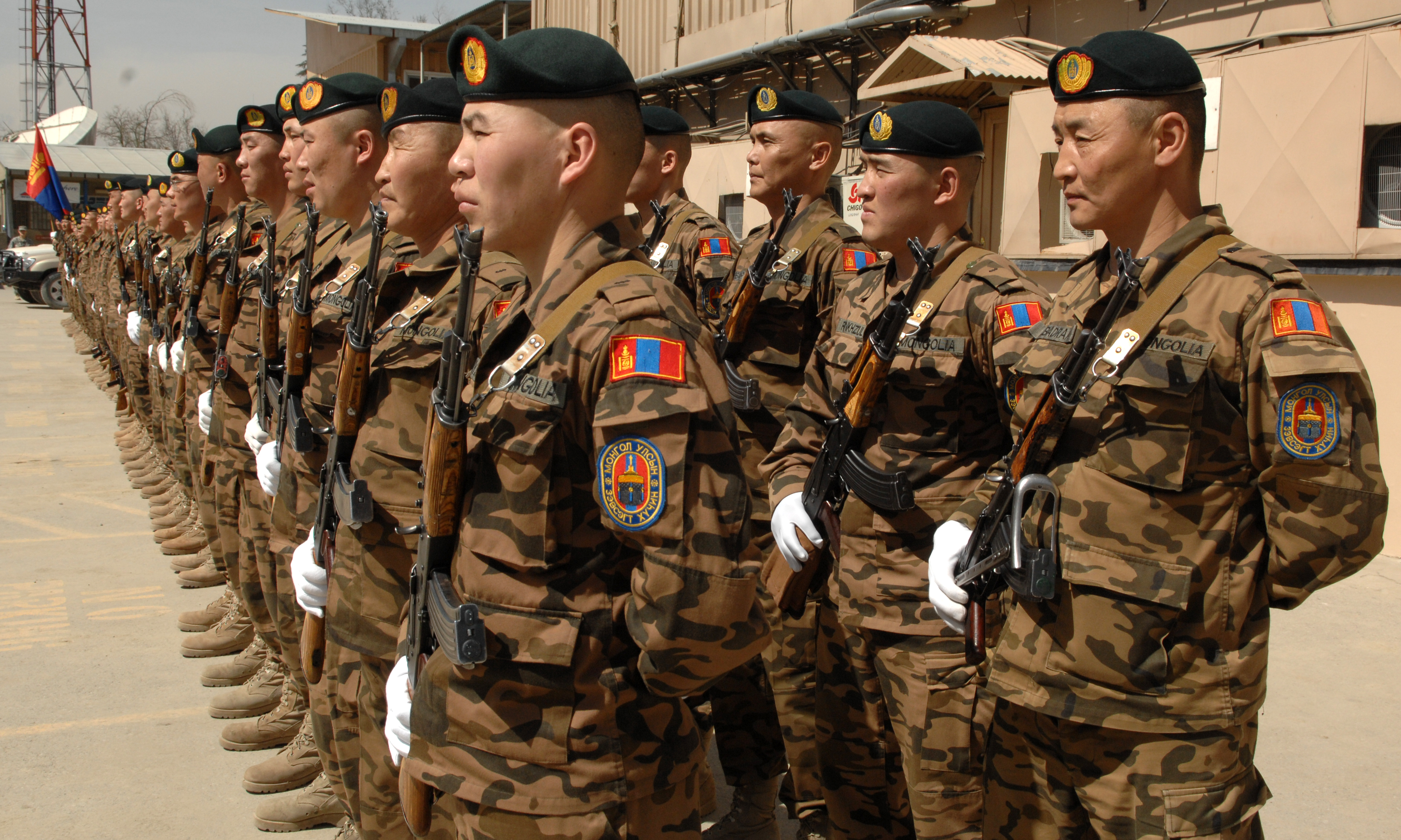 100318-F-8049N-002 CAMP EGGERS, Afghanistan (18 March, 2010) - Members of the Mongolian Expeditionary Task Force 1 stand in formation for Mongolian Army Day. Mongolian Army Day is an annual event that has occurred since 1921. (U.S. Air Force photo/Staff Sgt. Jeff Nevison)